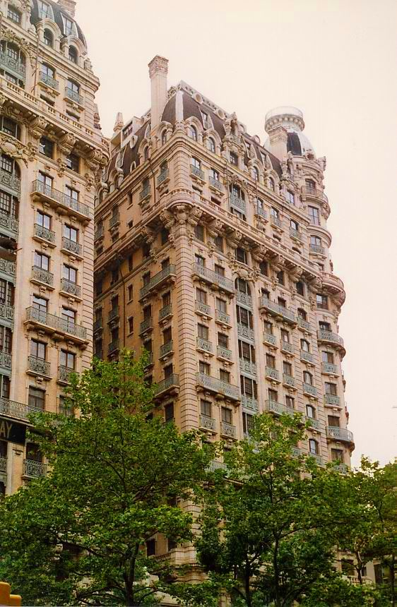 Image originally published in Queer Places: Retracing the Steps of LGBTQ people around the World Authored by Elisa Rolle